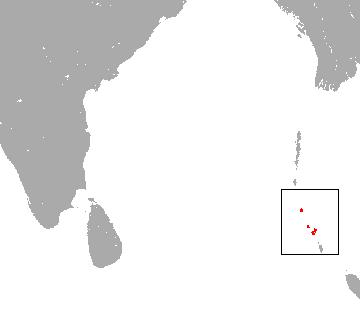 Nicobar Flying Fox (Pteropus faunulus) range